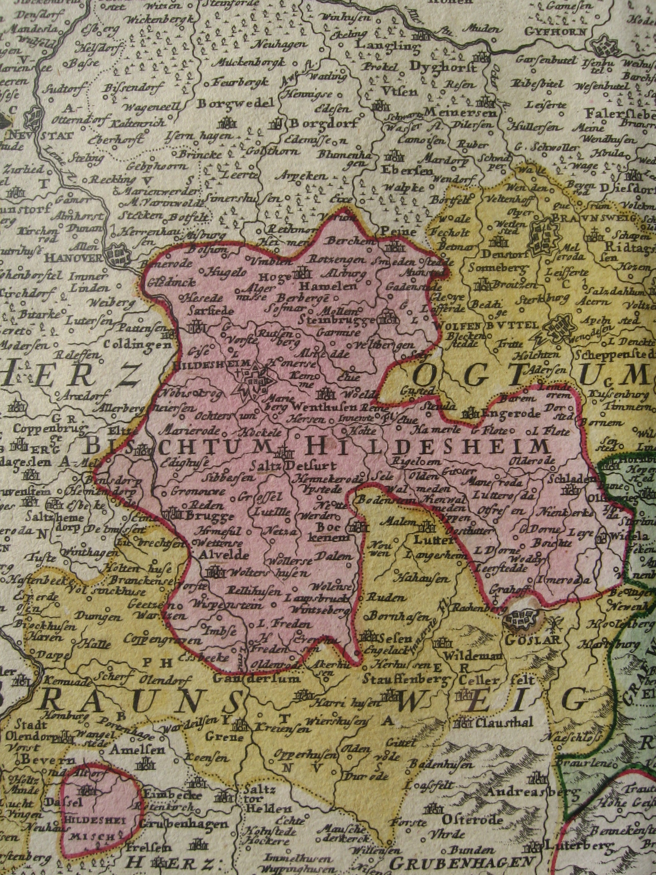 Shown in pink, the territory of the Prince-Bishopric of Hildesheim (German: Hochstift Hildesheim) on a map of the Circle of Lower Saxony by Johann Baptist Homann published c. 1730. Hildesheim was bordered by the Kingdom of Hanover (in white) and the Principality of Brunswick-Wolfenbüttel (in yellow), a subdivision of the Duchy of Brunswick. The prince-bishopric included the district of Hundsruck (with the town of Dassel), an exclave located to the southwest (lower left corner on the map).